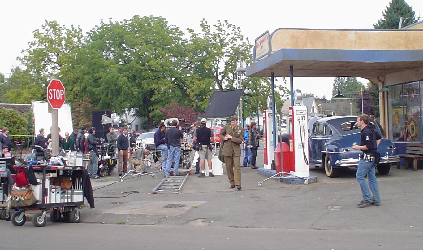 Chris Klein filming Hallmark Hall of Fame Production "Valley of Light" in downtown Woodburn. I took this picture. -- Andrew Parodi 06:08, 6 November 2005 (UTC)